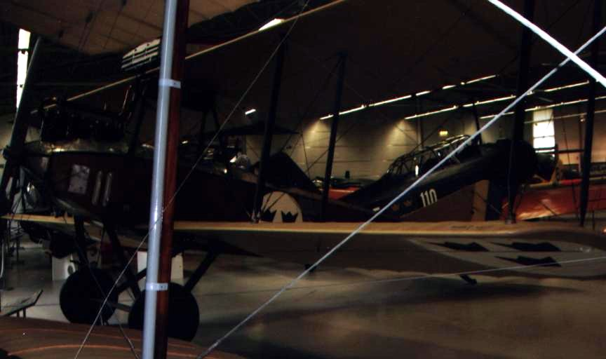 Albatross B.IIa built by FVM (Sweden) for the Swedish Air Force displayed at the Malmen Museum